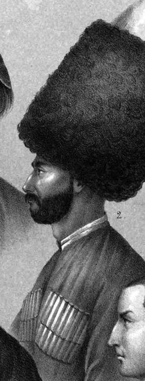 Prince Tengiz Dadeshkeliani from Etseri